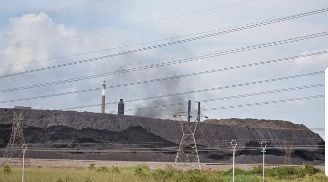 A mountain that contains minerals in its sand. This is an image with the theme "Play" from: Zambia